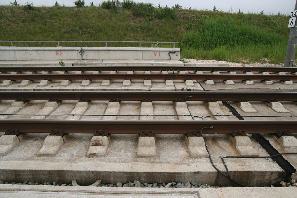 Slab track, type Rheda klassisch